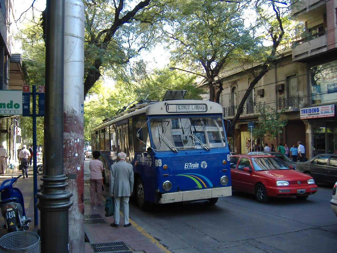 Trolleybus in Mendoza, Argentina